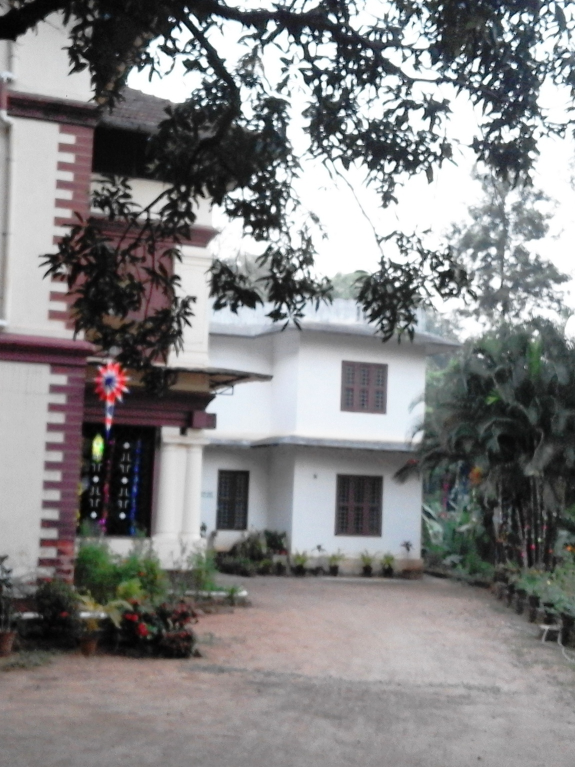 Shornur, India.